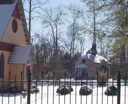 This is a view taken one February day in 2005, showing two historic buildings in Rugby, Tennessee. The church is on the left and the library is straight ahead. The library contains 7,000 books, all published prior to 1900.